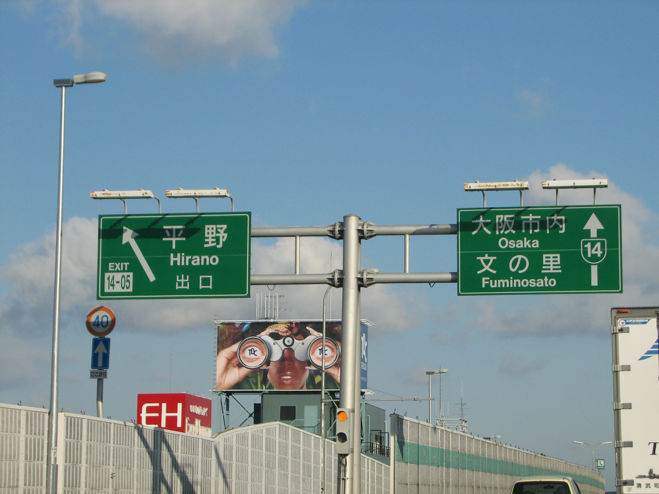 Hanshin Expressway Hirano IC